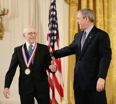 President George W. Bush presents a National Medal of Technology, Monday, Feb. 13, 2006 to Ralph H. Baer of Manchester, N.H., during ceremonies in the East Room of the White House. Baer was honored for his groundbreaking and pioneering creation, development and commercialization of interactive video games.